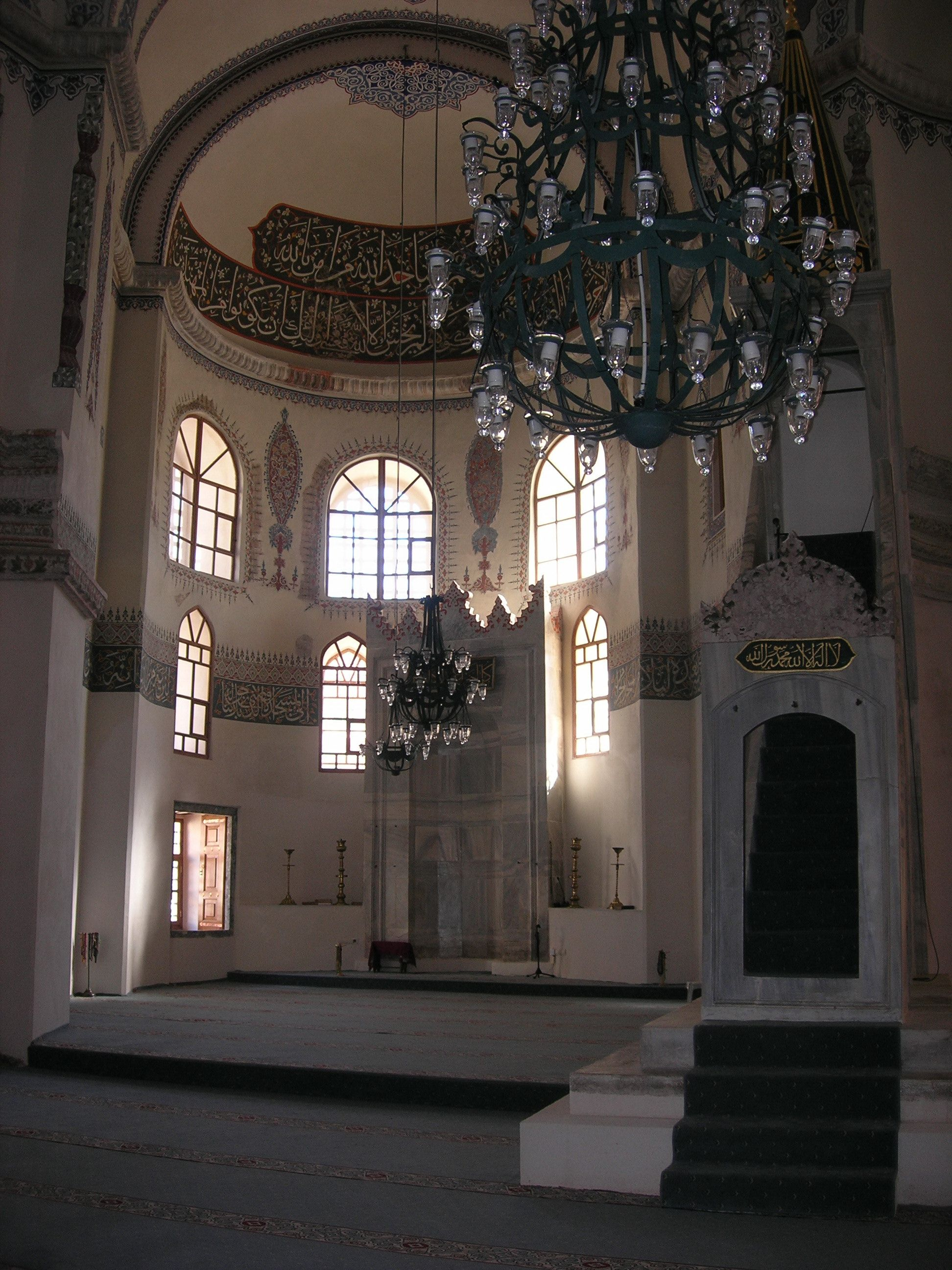 The Apsis of the former Church of Saints Sergius and Bacchus (today mosque of Little Hagia Sophia) in Istanbul